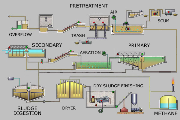 English translation and title enhancement of :image:ESQUEMPEQUE.jpg Licensing of original image follows and is attached to this derivative work